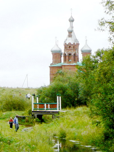 First bridge over the Volga